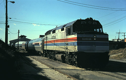 The Sunday-only Tidewater at Newport News station in December 1978